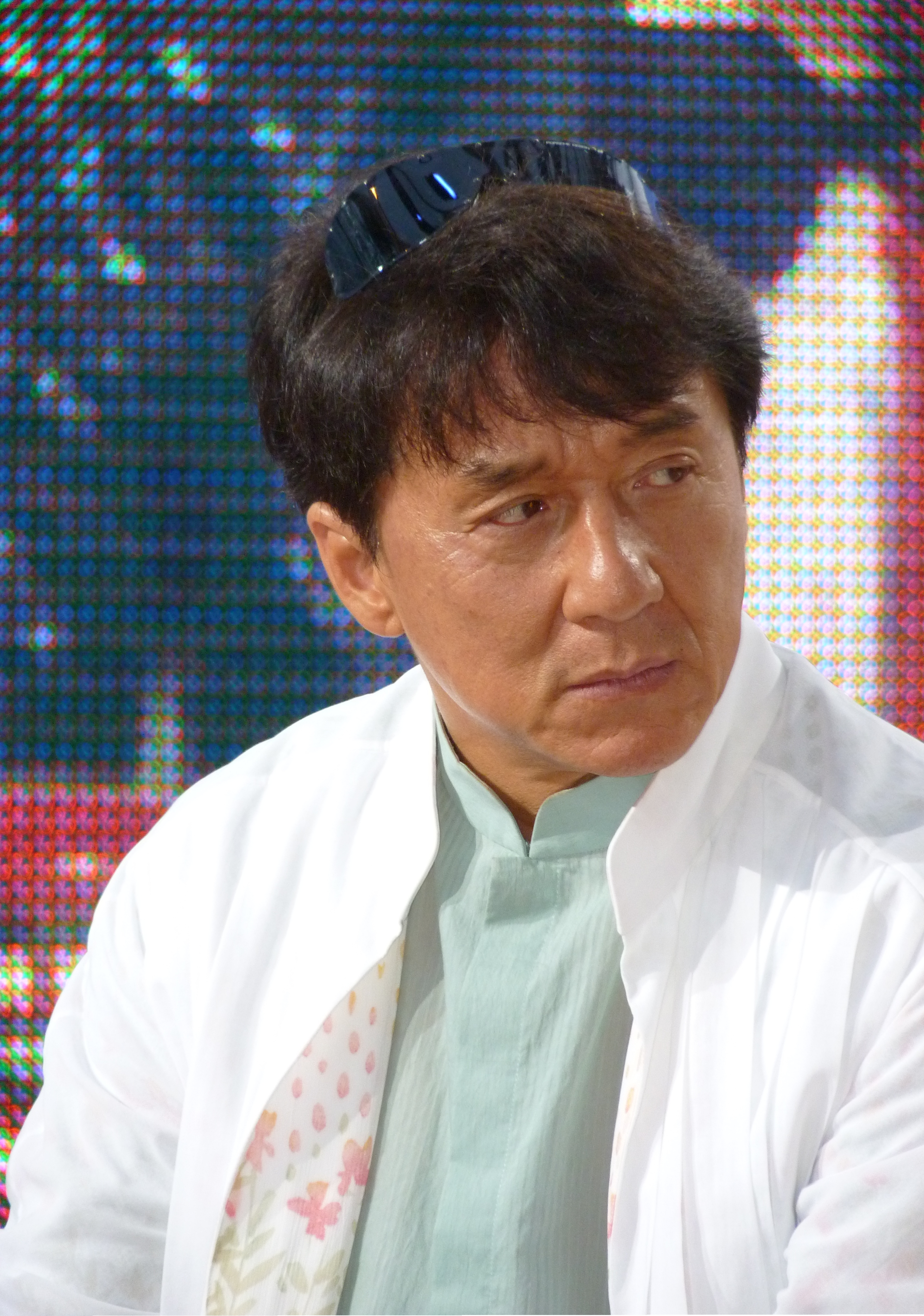 Jackie Chan at the 2012 Cannes Film Festival.